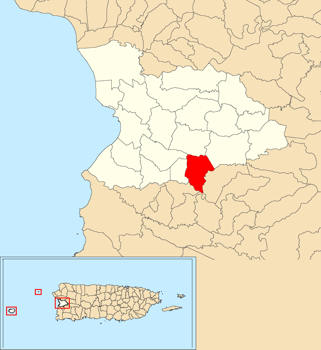 Rosario, Mayagüez, Puerto Rico locator map